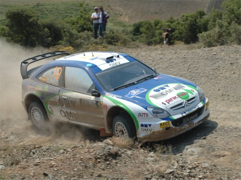 Xavier Pons driving a Citroën Xsara WRC at the 2005 Acropolis Rally.